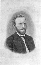 The Norwegian philologist Steinar Schjøtt. Norsk (bokmål): Den norske filologen Steinar Schjøtt.